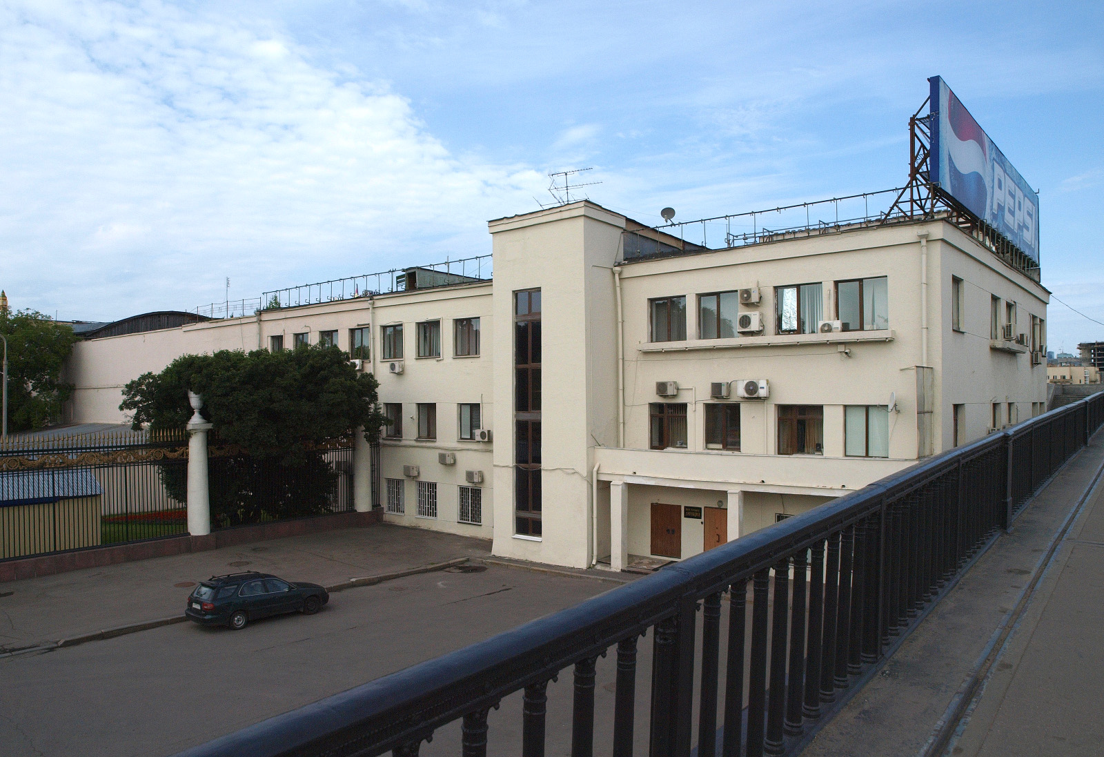 Krymsky Val Street, Moscow - Gorky Park office and maintenance bldg.